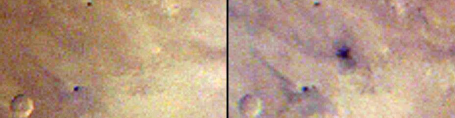 This pair of images taken one day apart by the Mars Color Imager (MARCI) weather camera on NASA's Mars Reconnaissance Orbiter reveals when an asteroid impact made the scar seen in the right-hand image. The left image was taken during Martian afternoon on March 27, 2012; the right one on the afternoon of March 28, 2012. The dark area in the "after" image is about 5 miles (8 kilometers) wide. Observations with other cameras on Mars Reconnaissance Orbiter and with cameras on other Mars orbiters have located about 400 fresh impact craters on Mars that have been confirmed with before-and-after images. None except this one have created scars detected in images from MARCI, which is a wide-angle camera used for monitoring Martian weather. Owing to the daily pace of MARCI global coverage, this is the first impact event for which the timing has been constrained within the length of a single Martian day (about 24.7 hours). Subsequent images from two telescopic cameras on Mars Reconnaissance Orbiter revealed craters within this impact scar that had not been present in January 2012. The largest of these craters -- 159 feet (48.5 meters) wide -- is the biggest fresh impact crater ever clearly confirmed anywhere with before-and-after images. These two MARCI images are centered at 3.34 degrees north latitude, 219.38 degrees east longitude. MARCI is one of six instruments on NASA's Mars Reconnaissance Orbiter. The camera was built and is operated by Malin Space Science Systems, San Diego. NASA's Jet Propulsion Laboratory, a division of the California Institute of Technology in Pasadena, manages the Mars Reconnaissance Orbiter Project for NASA's Science Mission Directorate, Washington.